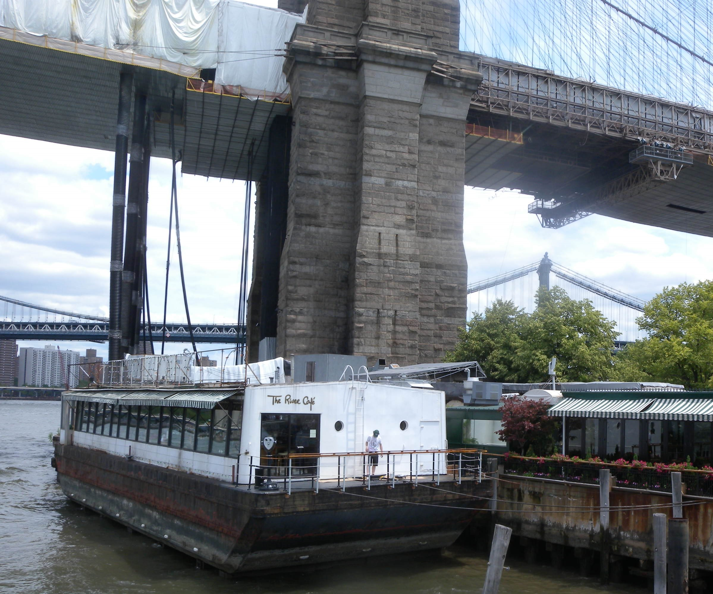 The River Café under the Brooklyn Bridge. Looking east from ferry, at floating restaurant on a mostly cloudy midday. Manhattan Bridge in background.